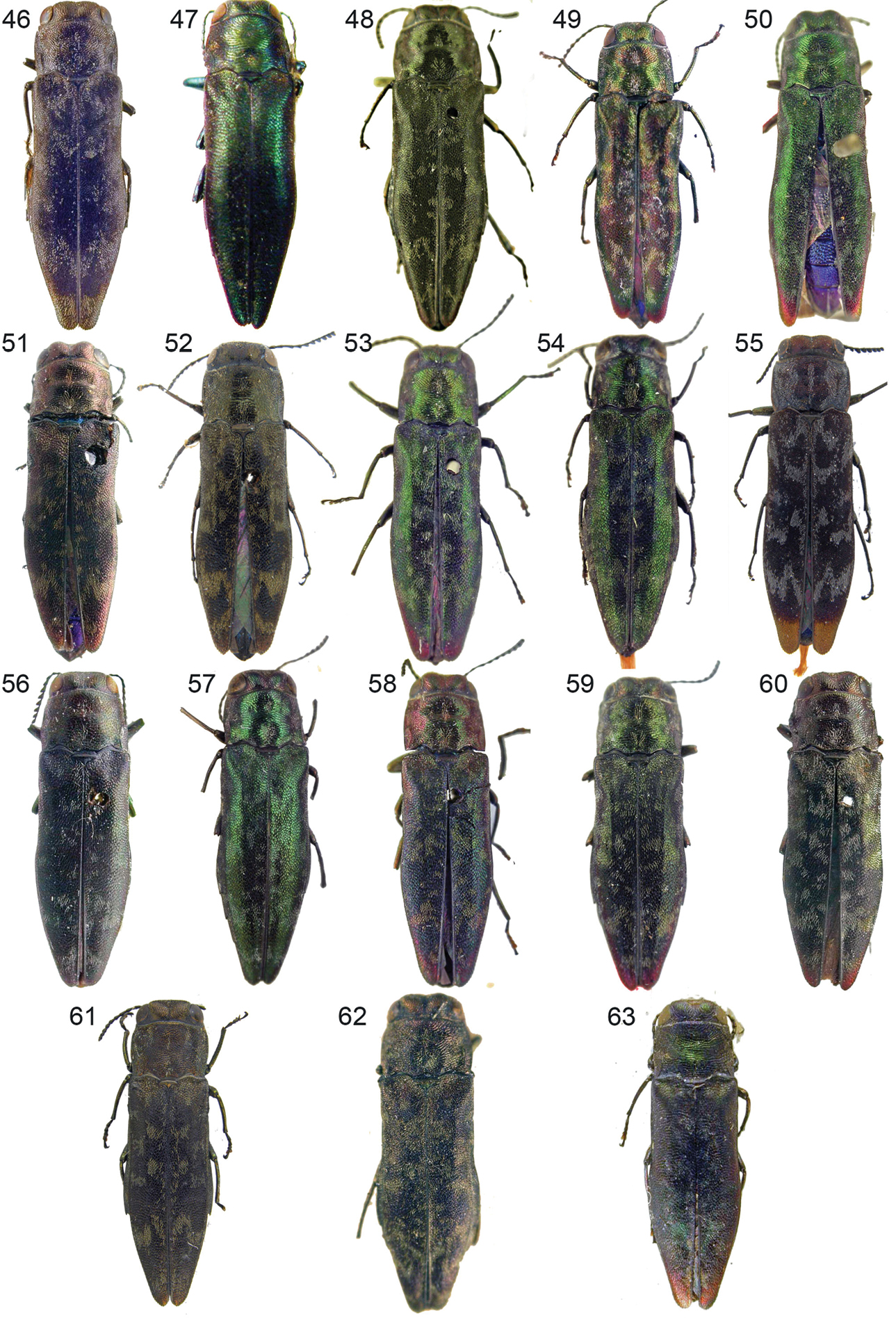 Types of Agrilus: 46 Agrilus auroapicalis Kurosawa, 1957 – Holotype 47 Agrilus biakanus Curletti, 2006 – Holotype (source: Curletti, 2006) 48 Agrilus celebicola Obenberger, 1924 – Lectotype 49 Agrilus connexus Kerremans, 1900 – Holotype by monotypy 50 Agrilus cupricauda Saunders, 1867 – Lectotype 51 Agrilus evinadus Gory & Laporte, 1839 – Lectotype 52 Agrilus horni Théry, 1904 – Lectotype 53 Agrilus korenskyi Obenberger, 1923 – Lectotype 54 Agrilus kurandae Obenberger, 1923 – Lectotype 55 Agrilus laurenconi Descarpentries & Villiers, 1963 – Holotype 56 Agrilus marmoreus Deyrolle, 1864 – Lectotype 57 Agrilus nitidus Kerremans, 1898 – Lectotype 58 Agrilus nirius Obenberger, 1924 – Lectotype 59 Agrilus oblatus Kerremans, 1900 – Lectotype 60 Agrilus occipitalis (Eschscholtz, 1822) – Lectotype 61 Agrilus samoensis Blair, 1928 – Holotype 62 Agrilus sordidulus Obenberger, 1916 – Holotype by monotypy 63 Agrilus tebinganus Obenberger, 1924 – Lectotype